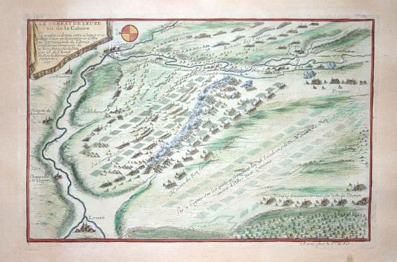 Battle of Leuze